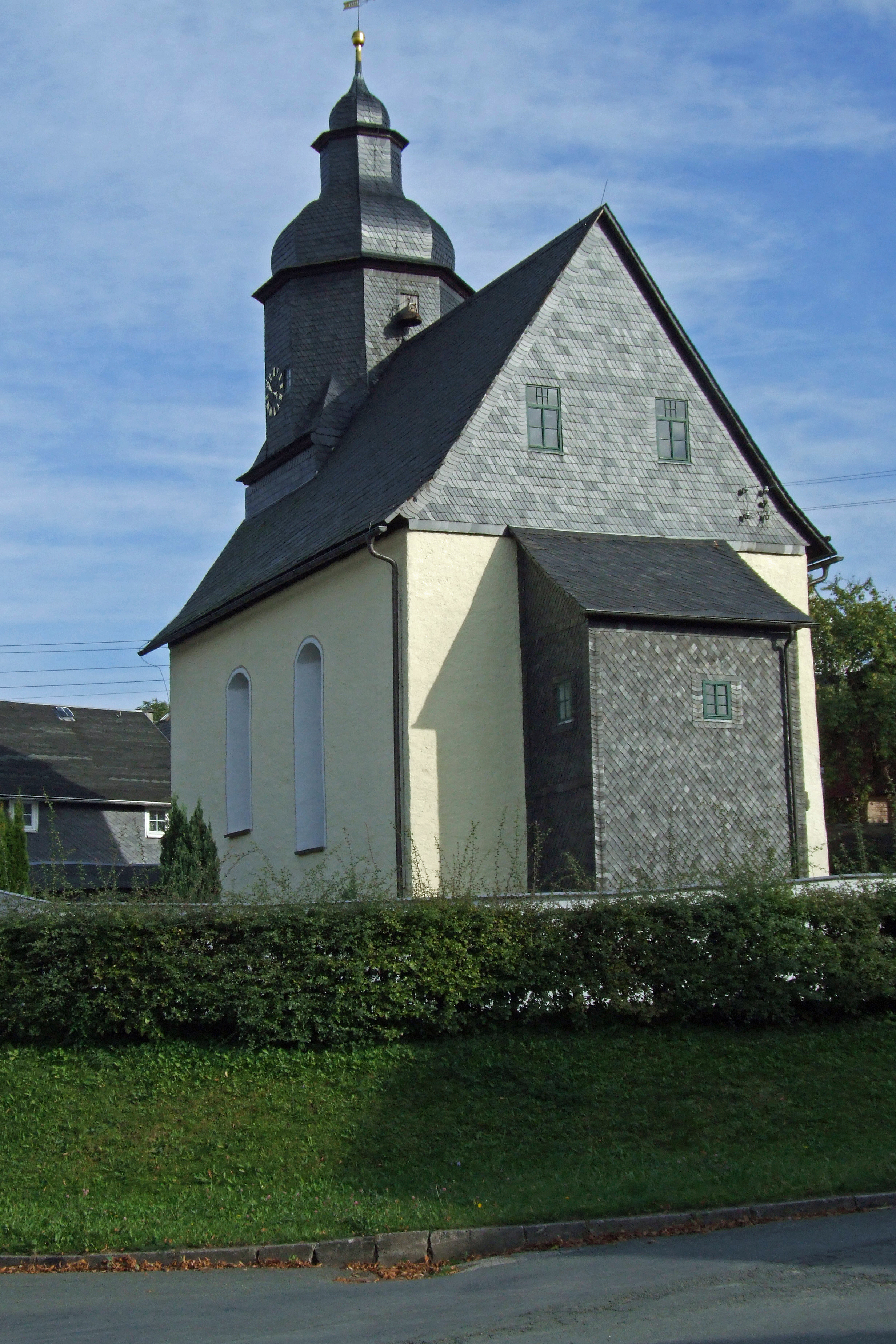 Church Landsendorf